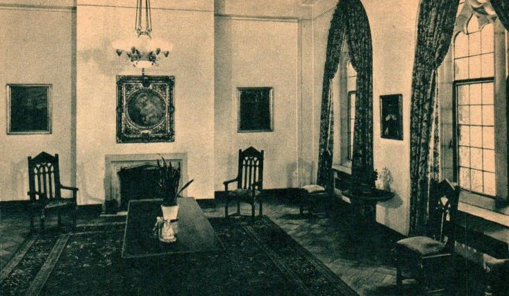 parlour